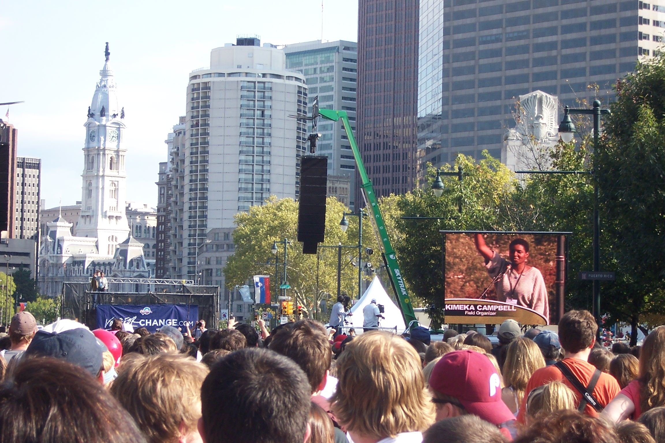 A Barack Obama voter registration rally, with Bruce Springsteen and other musical artists included, held on Philadelphia's Benjamin Franklin Parkway